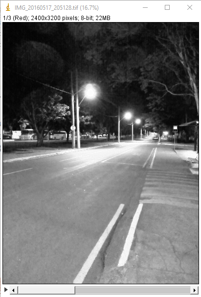 Imagem original. Foto da avenida principal da UFLA. Fonte: Próprio autor